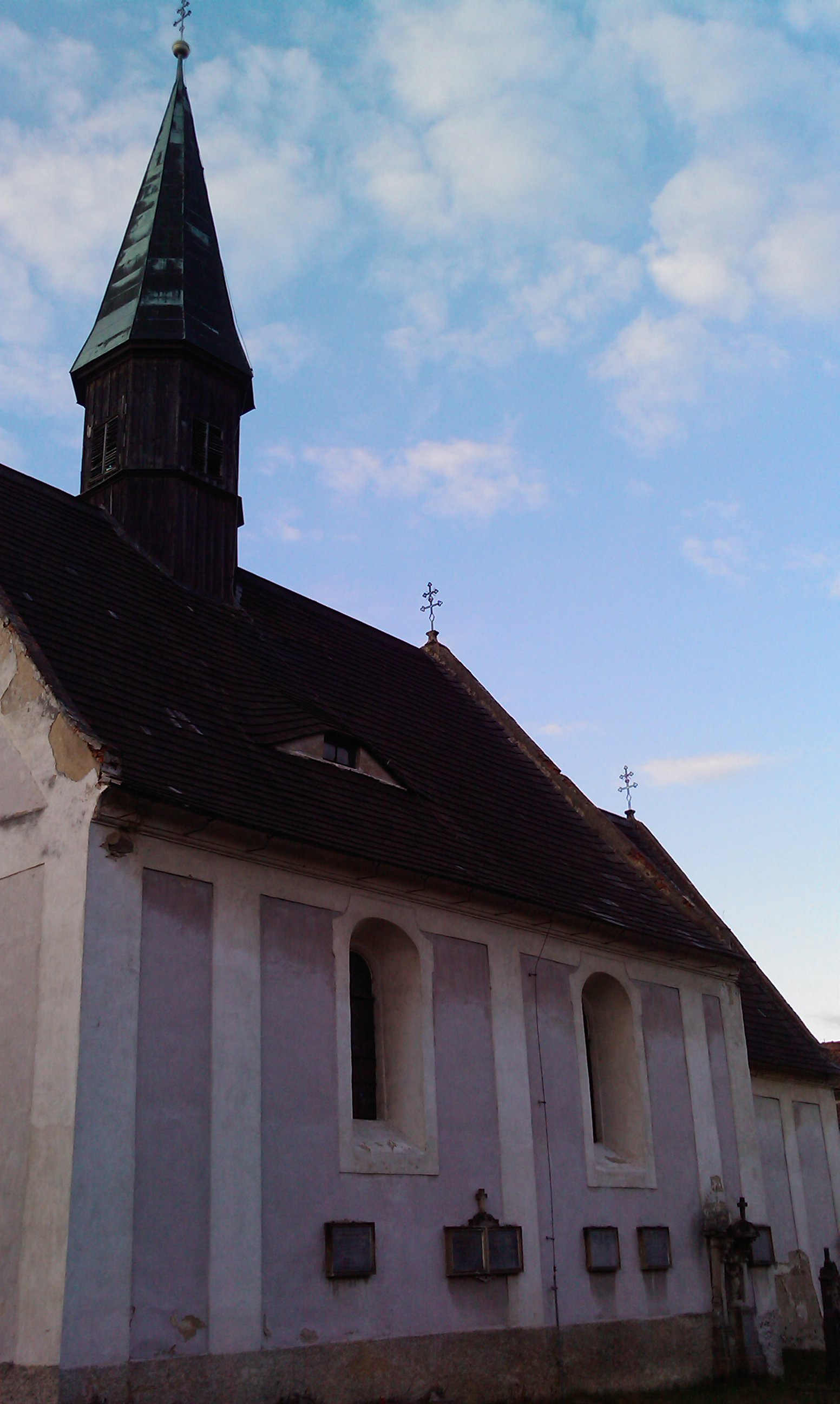 Kostel sv. Vavrince in Czech village Ves